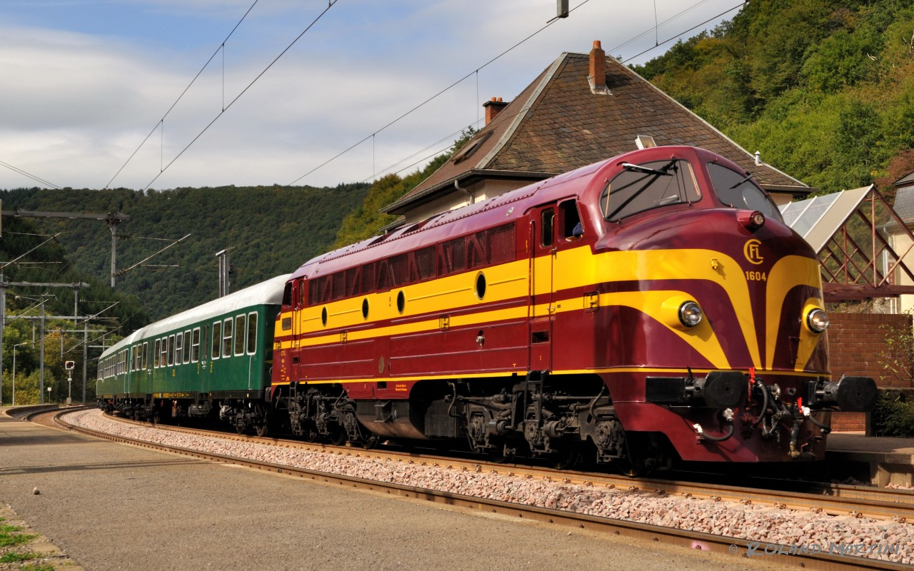 CFL 1604 passing Goebelsmuehle station with IR train